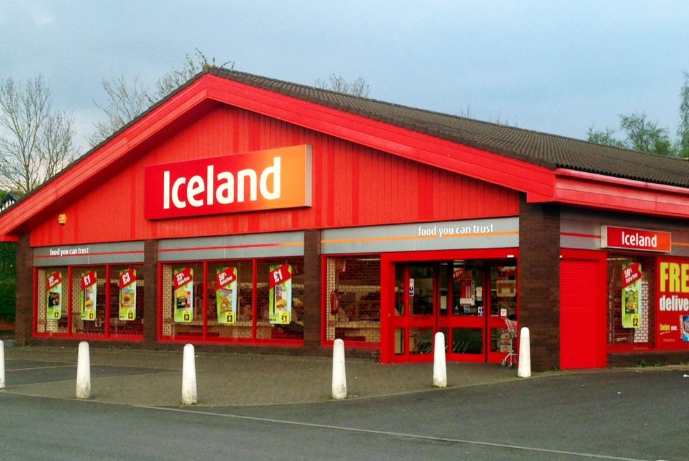 The exterior of an Iceland supermarket in Horwich, Bolton, Greater Manchester.